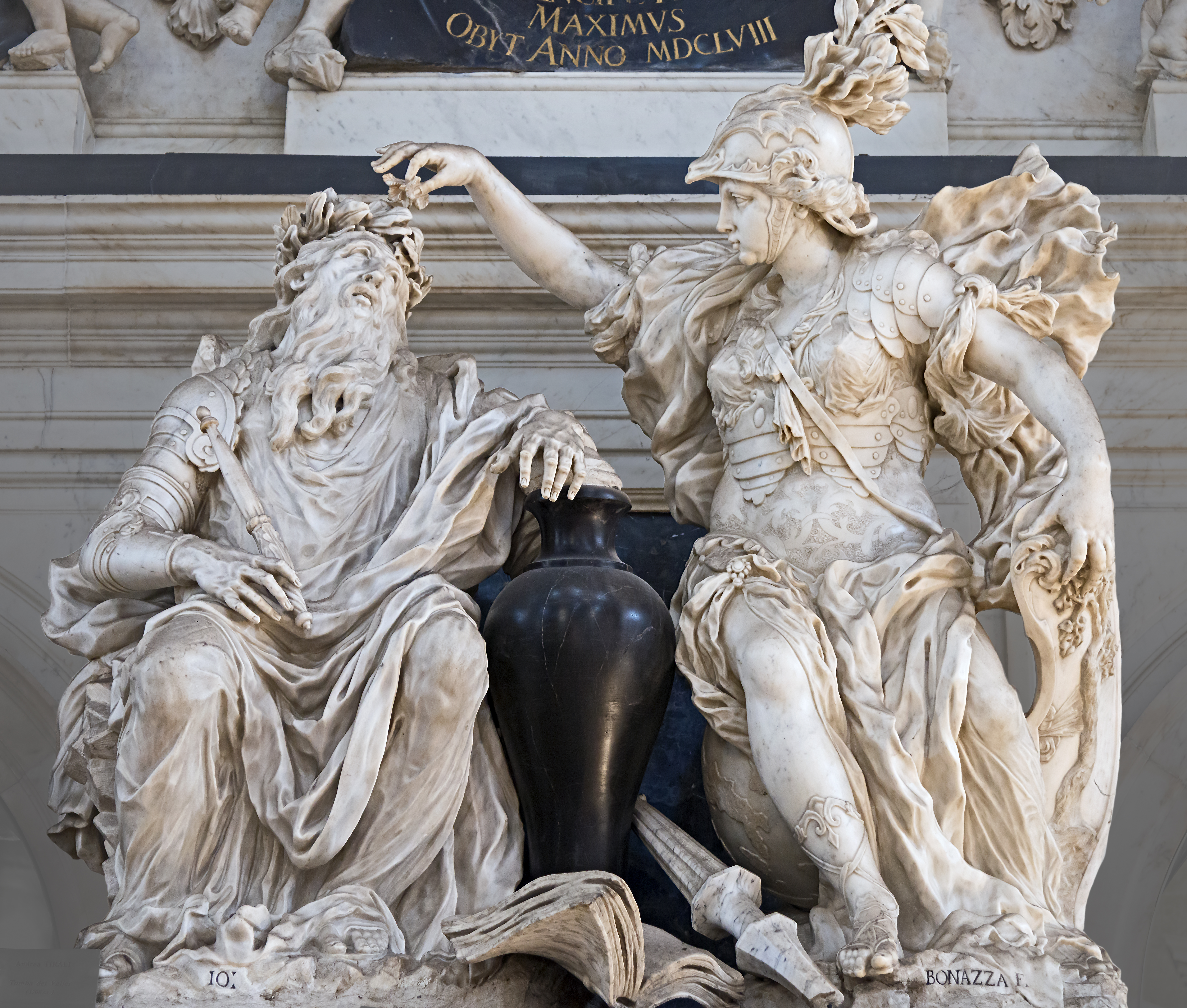 Santi Giovanni e Paolo in Venice, monument of the Valier family : Virtue crowns the merit by Giovanni Bonazza.